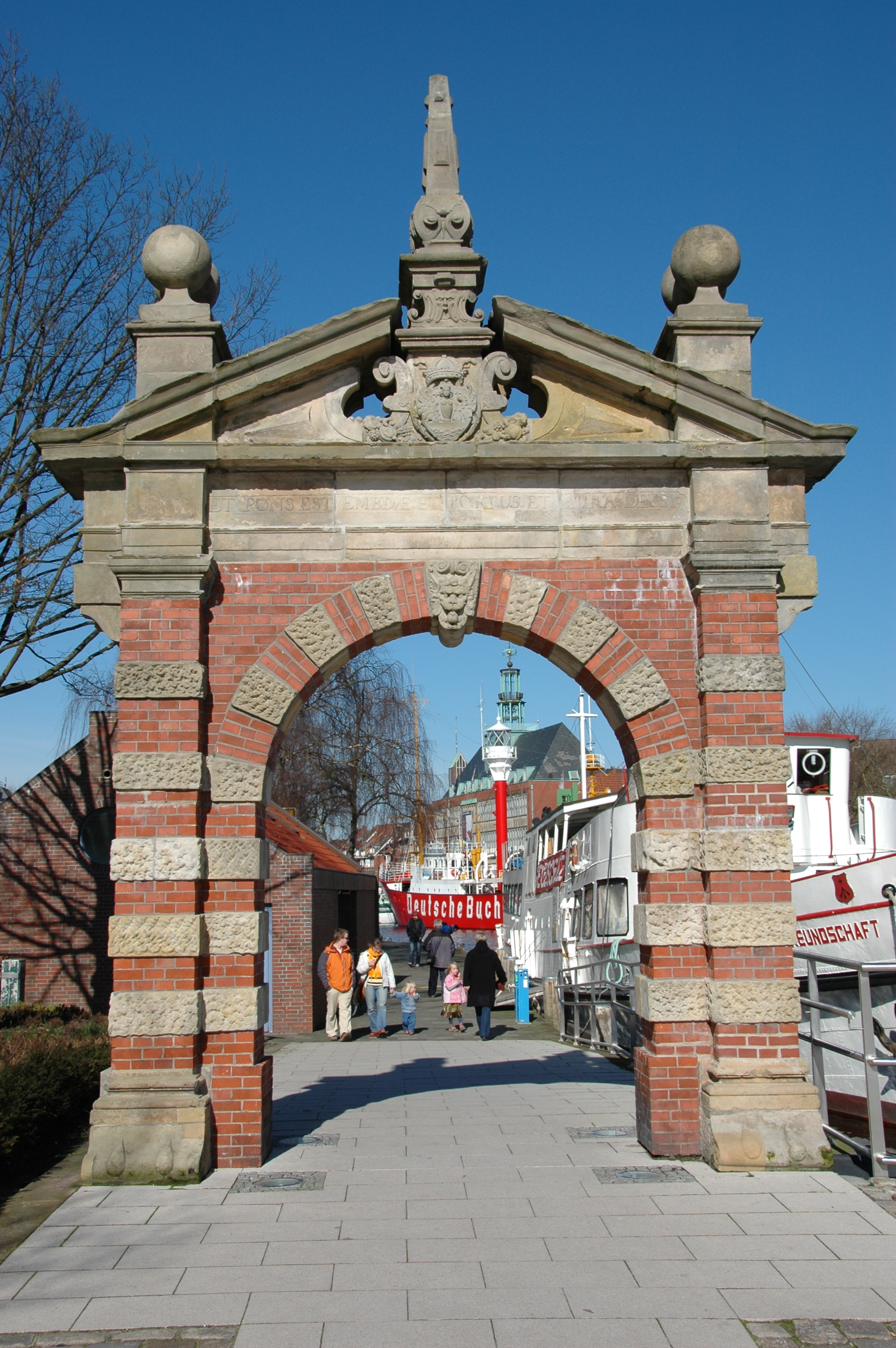 Das Hafentor (Harbour's Archway) in Emden, Lower Saxony, Germany Own work, Picture taken: 11th of March, 2007. By Rolf Drewes